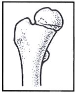 Line drawing of fractured hip